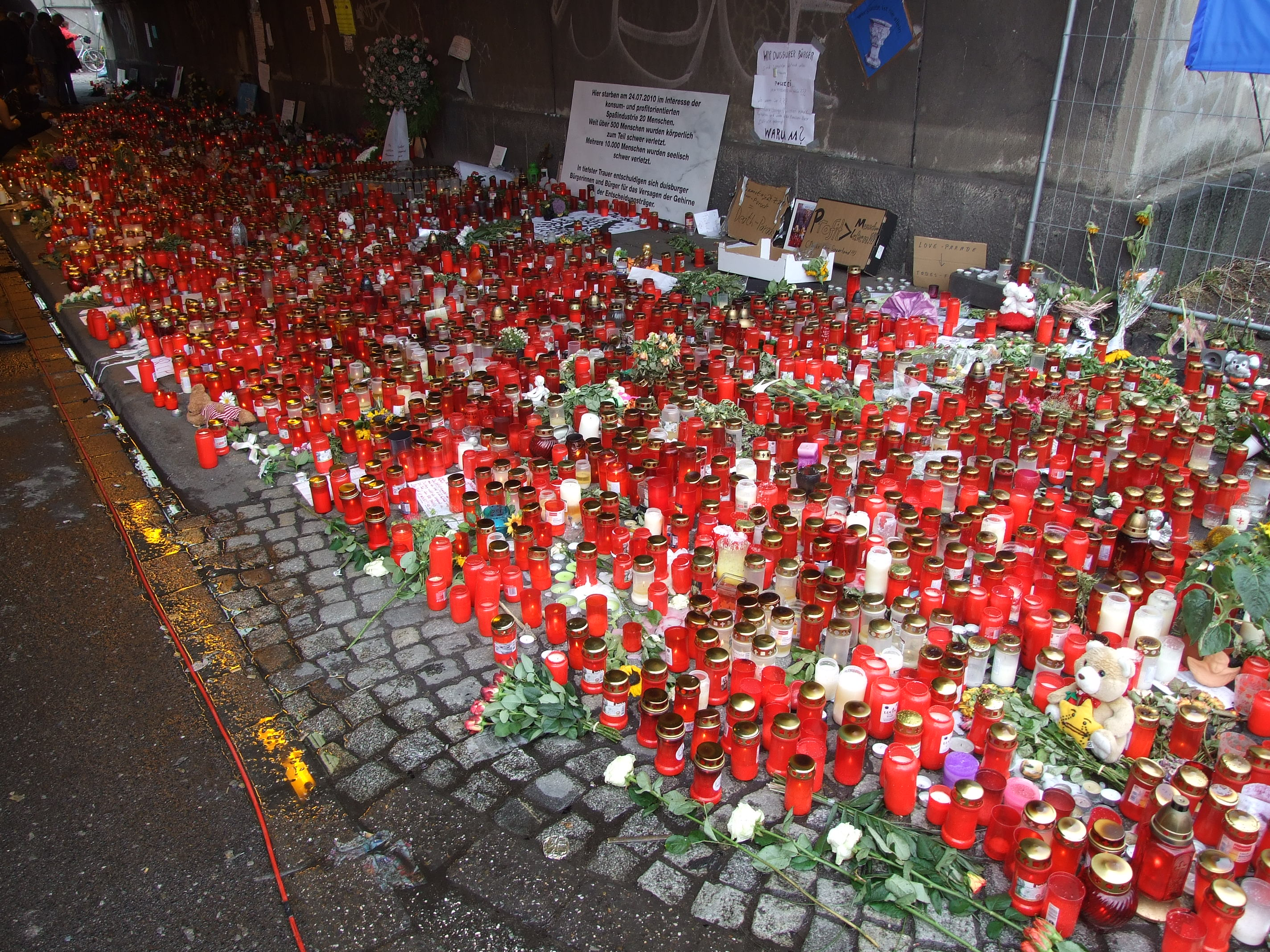 Love Parade 2010, Candles at the Tunnel by the Ramp